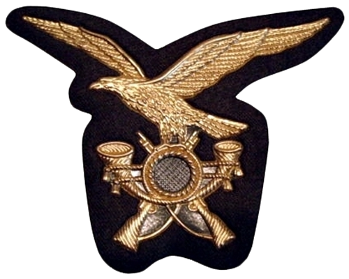 Cap insignia of the Alpini, the mountain troops of the Italian Army.